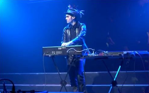 Photo of the french artist Electrosexual performing in 2010 in Amsterdam